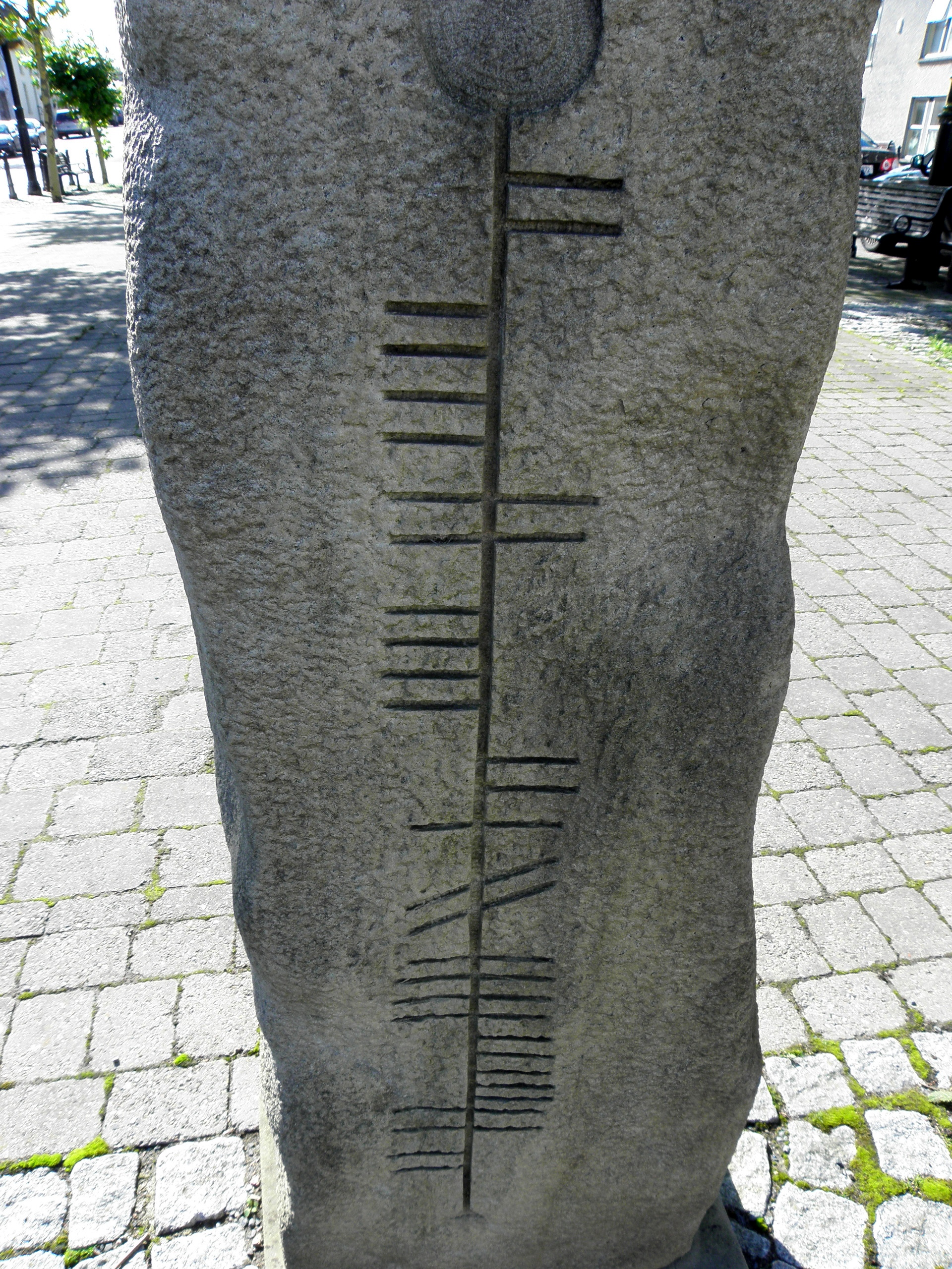 Modern Ogham stone in The Diamond area of Lifford, County Donegal, Ireland. From bottom to top: DONEGAL CO CL (Donegal County Council).